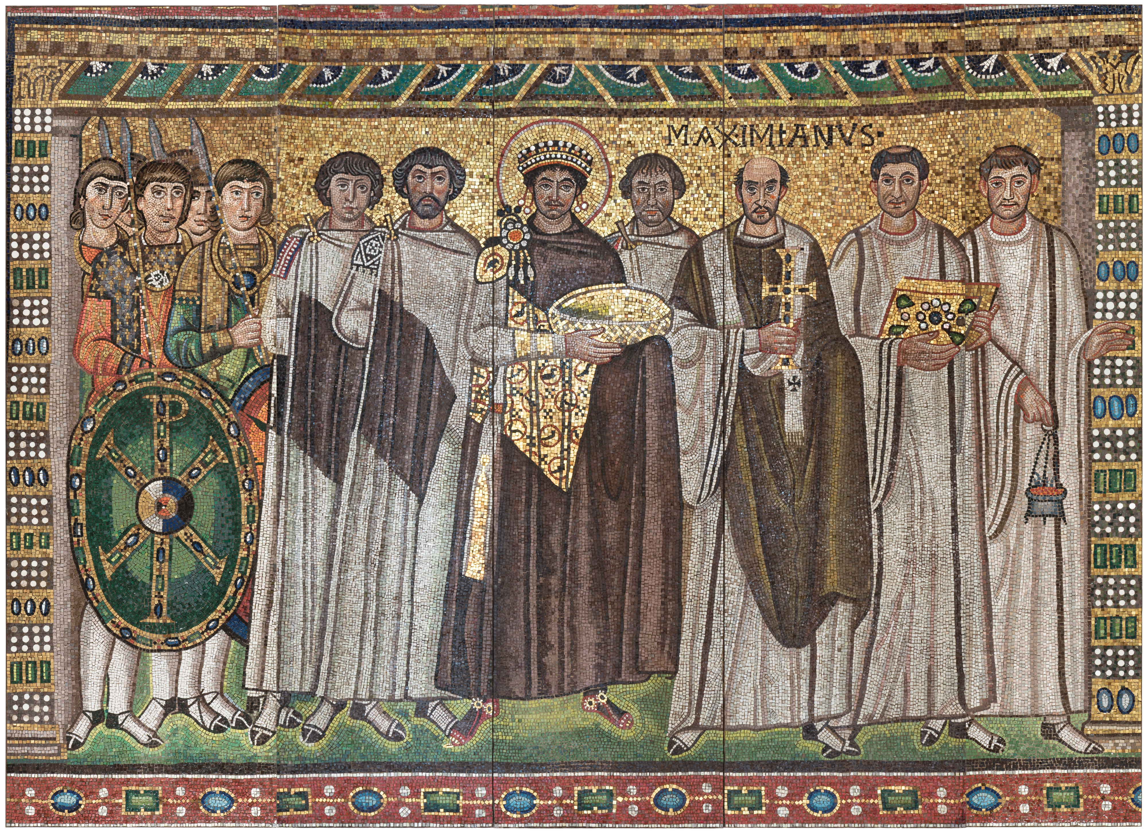 Byzantine; Mosaic; Reproductions-Mosaics